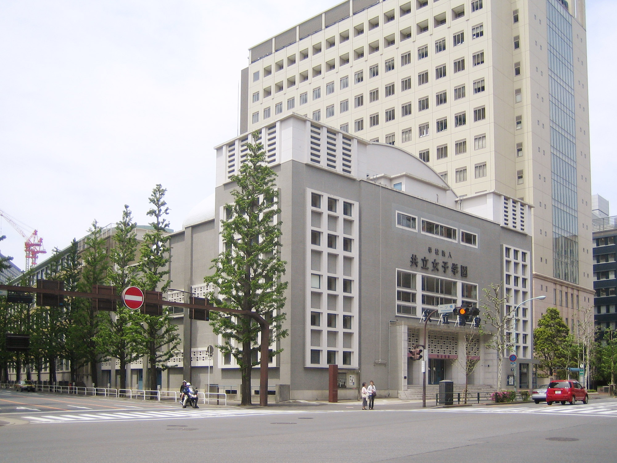 Kyoritsu Women's Educational Institution (共立女子大学), Chiyoda, Tokyo, Japan